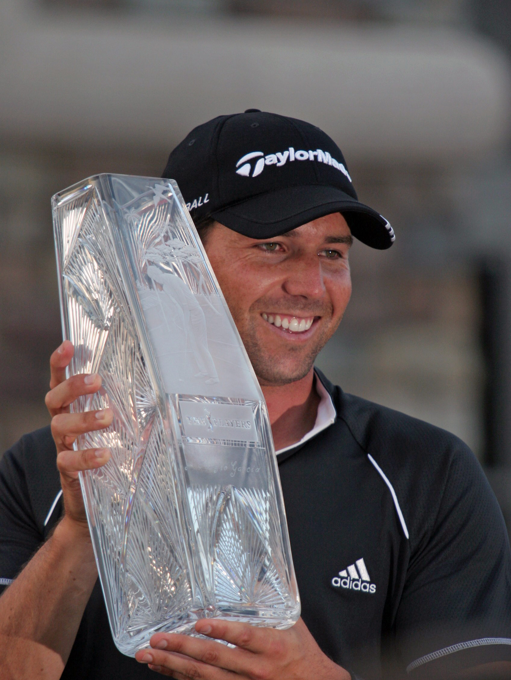 Sergio Garcia displaying his trophy after winning the 2008 Players Championship.